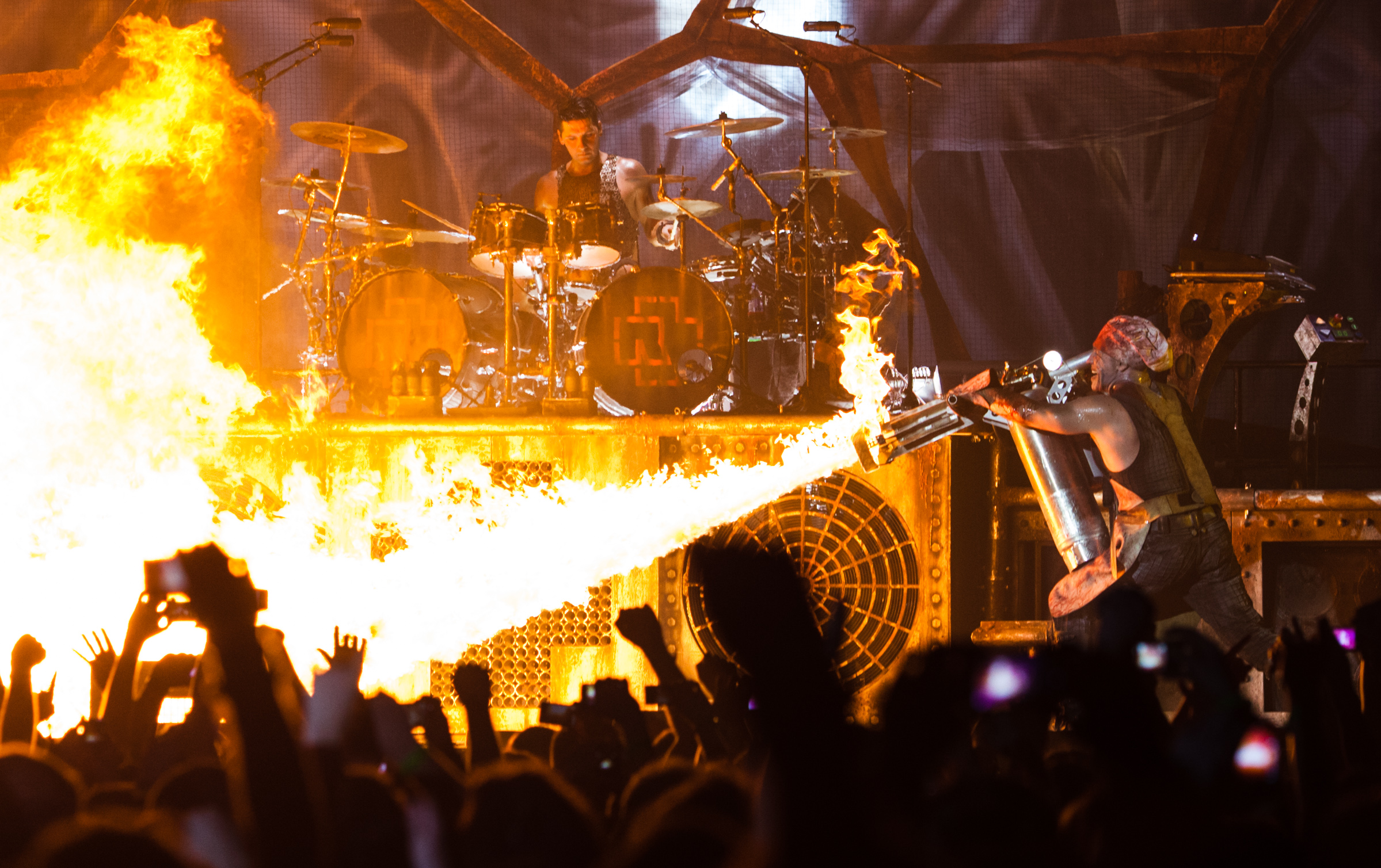 Rammstein performing Mein Teil live in London 24 February 2012